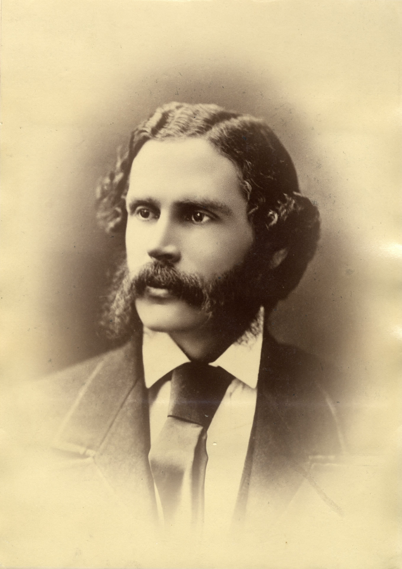 352 x 253 mm albumen portrait of Canadian lawyer William Alexander Foster